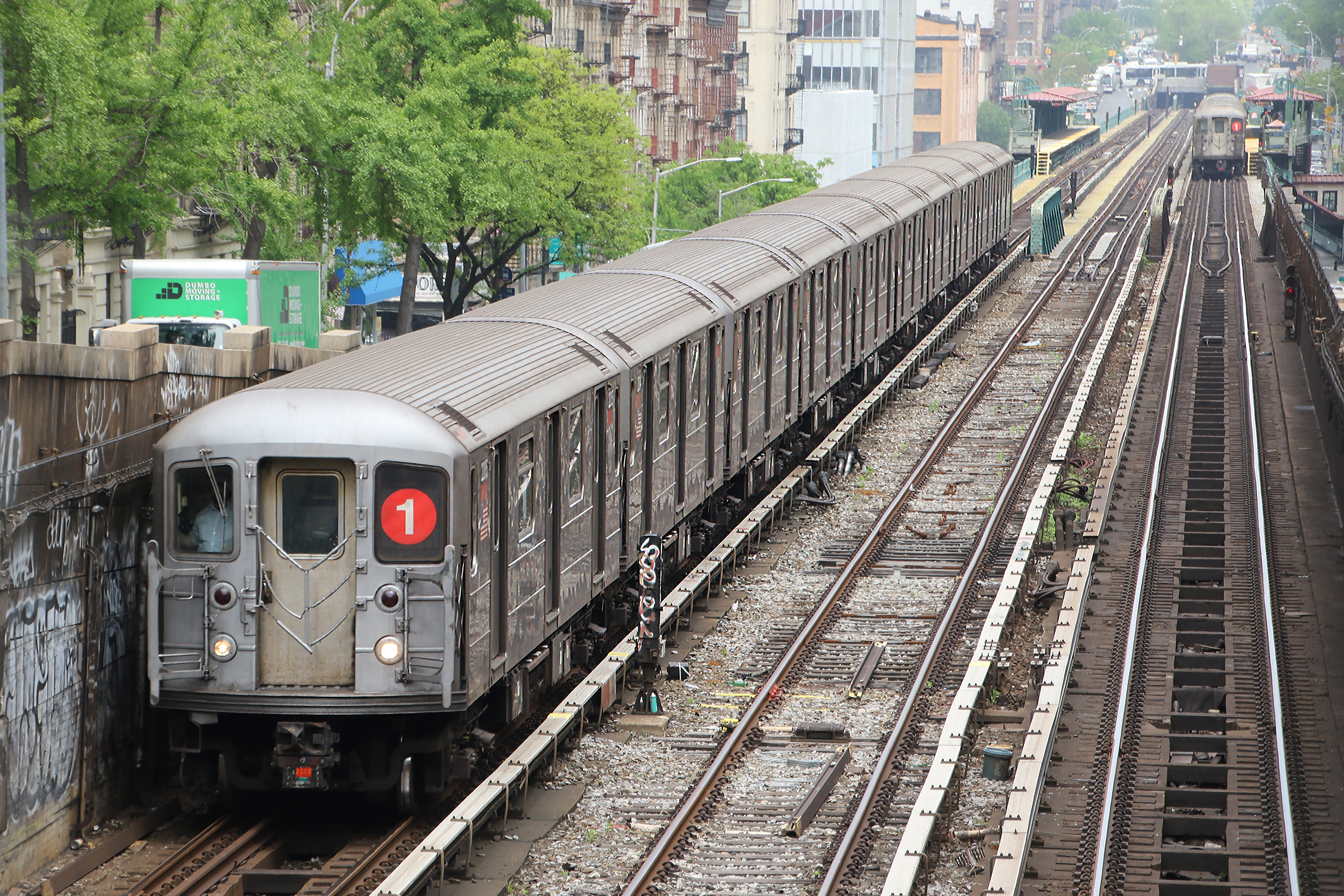 MTA NYC Subway 1 trains at 125th St.